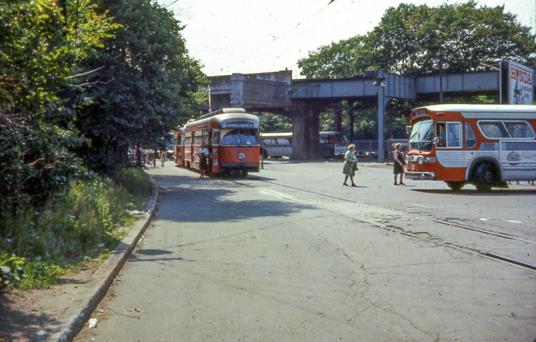 Passengers depart from a 2-car train at Arborway Yard in 1967.